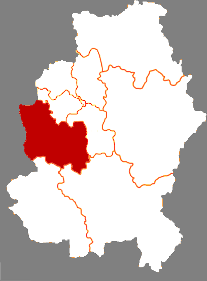 Location of Yongji county in Jilin City, China